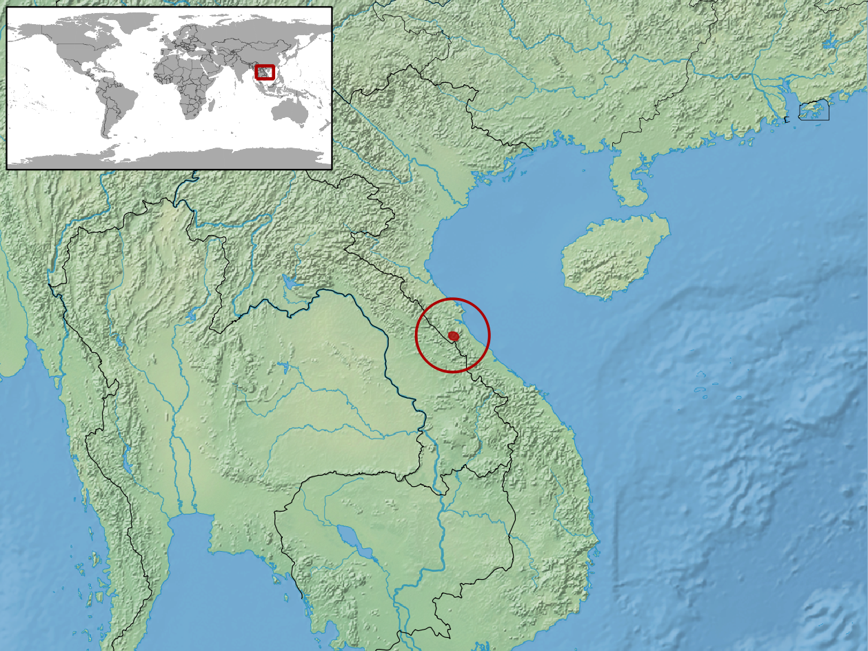 geographic distribution of Calamaria thanhi (Native: Viet Nam)